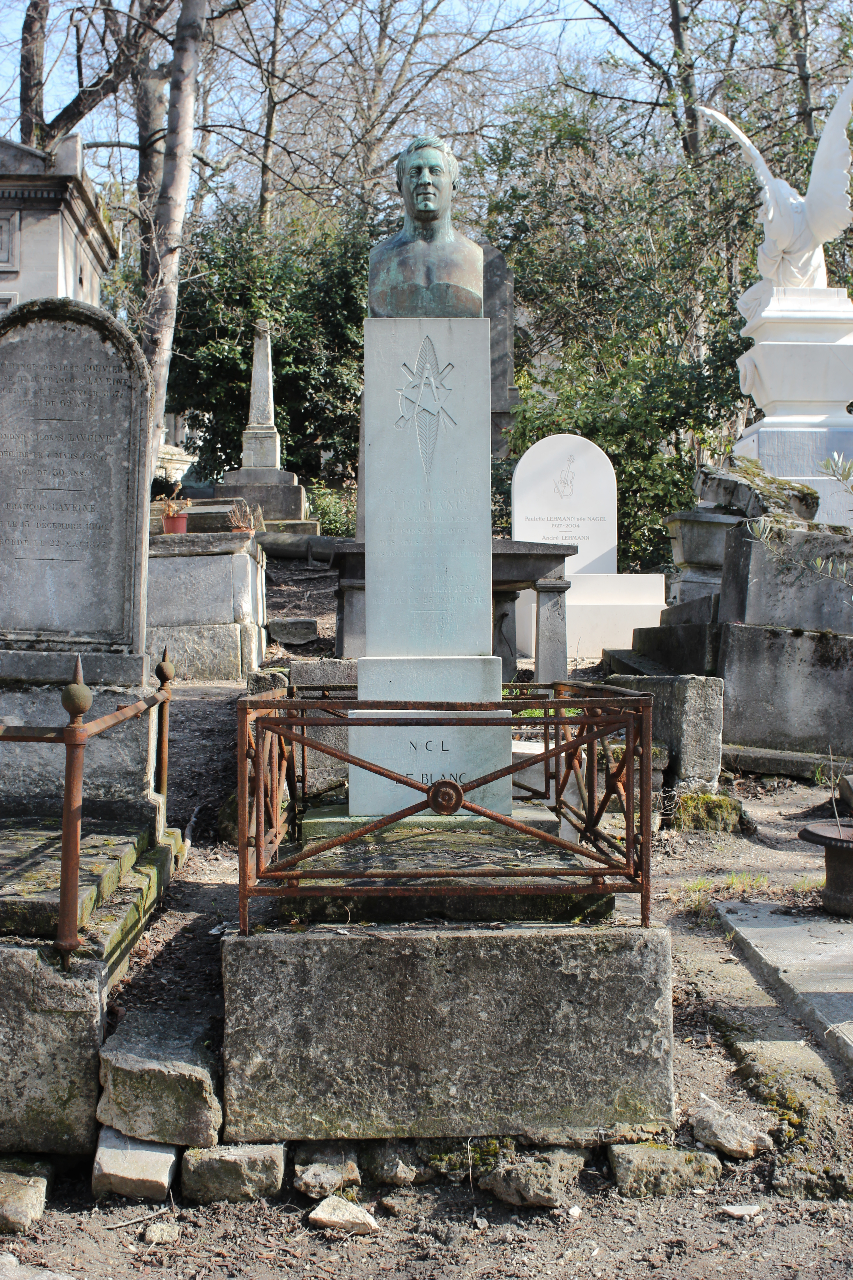 Stone surmounted by a bronze Herma, surrounded by a wrought iron St. Andrew cross fence.